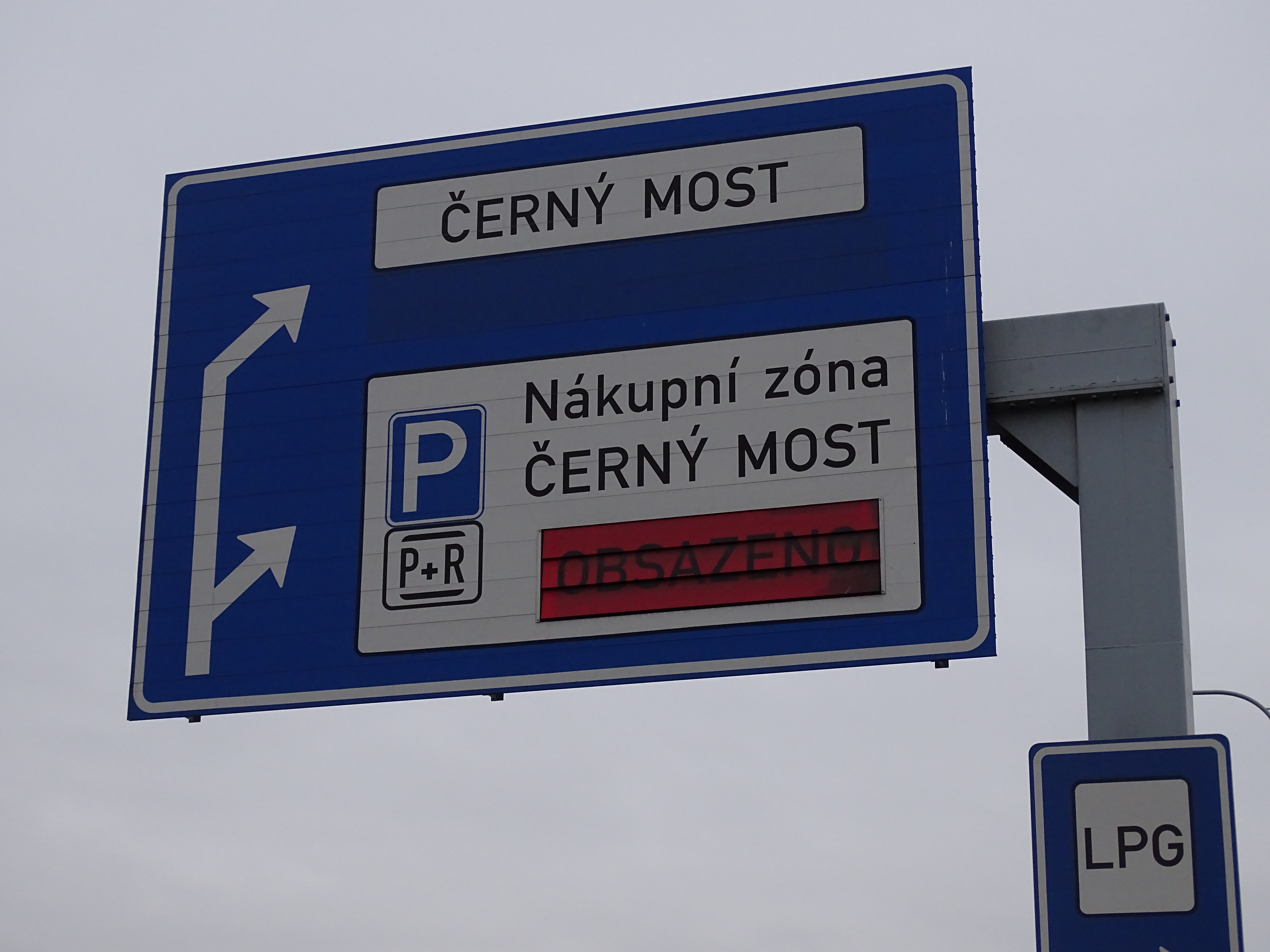 Prague-Horní Počernice, Czechia. Chlumecká street, a directional sign.